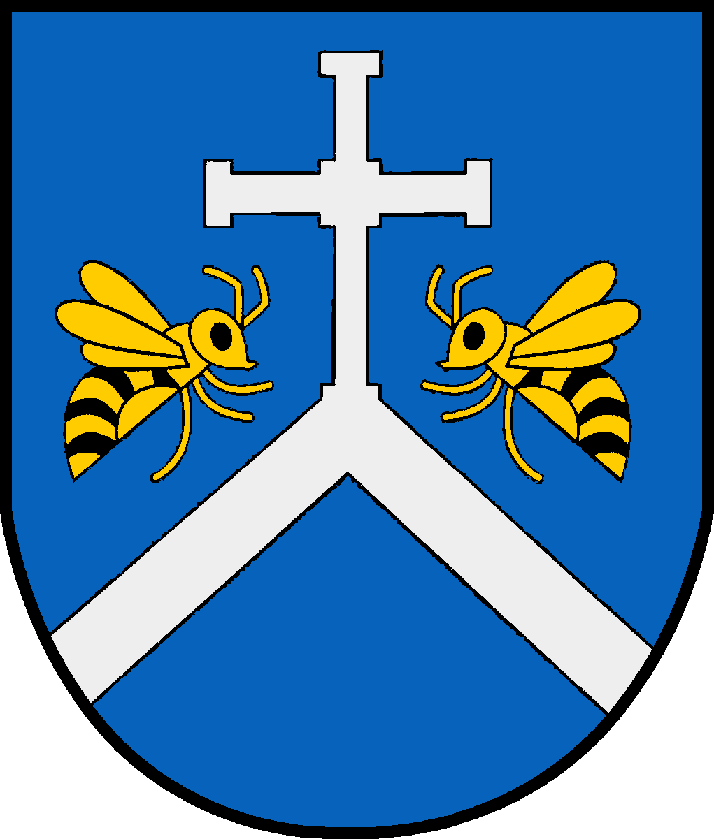 Coat of arms of the municipality Högersdorf in Schleswig-Holstein, Germany.